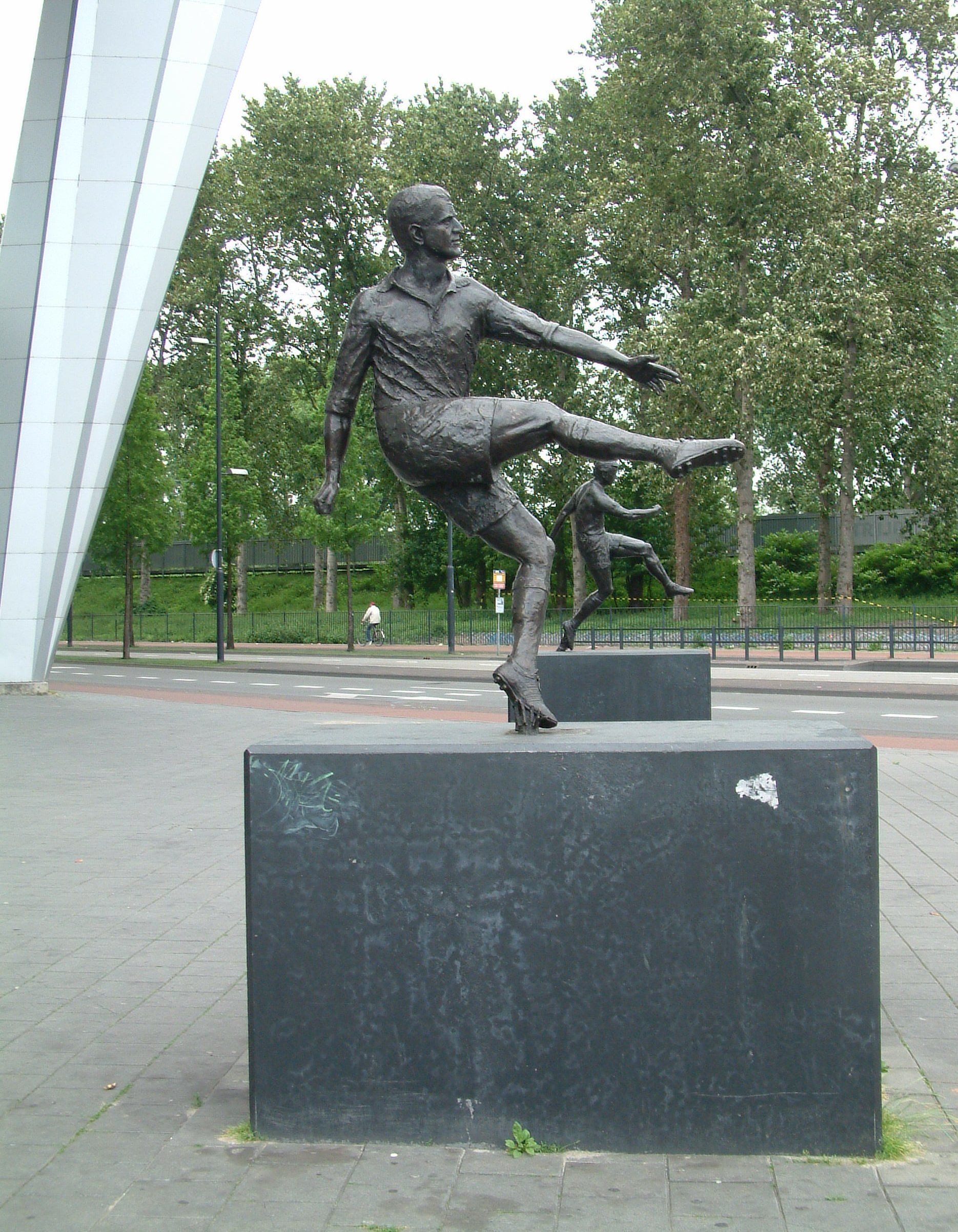 Statue of Coen Dillen former player of PSV Eindhoven and 2nd all time top scorer of PSV. Standing next to the Philips Stadium in the North East corner. (In the background is the statue of Willy van der Kuijlen)